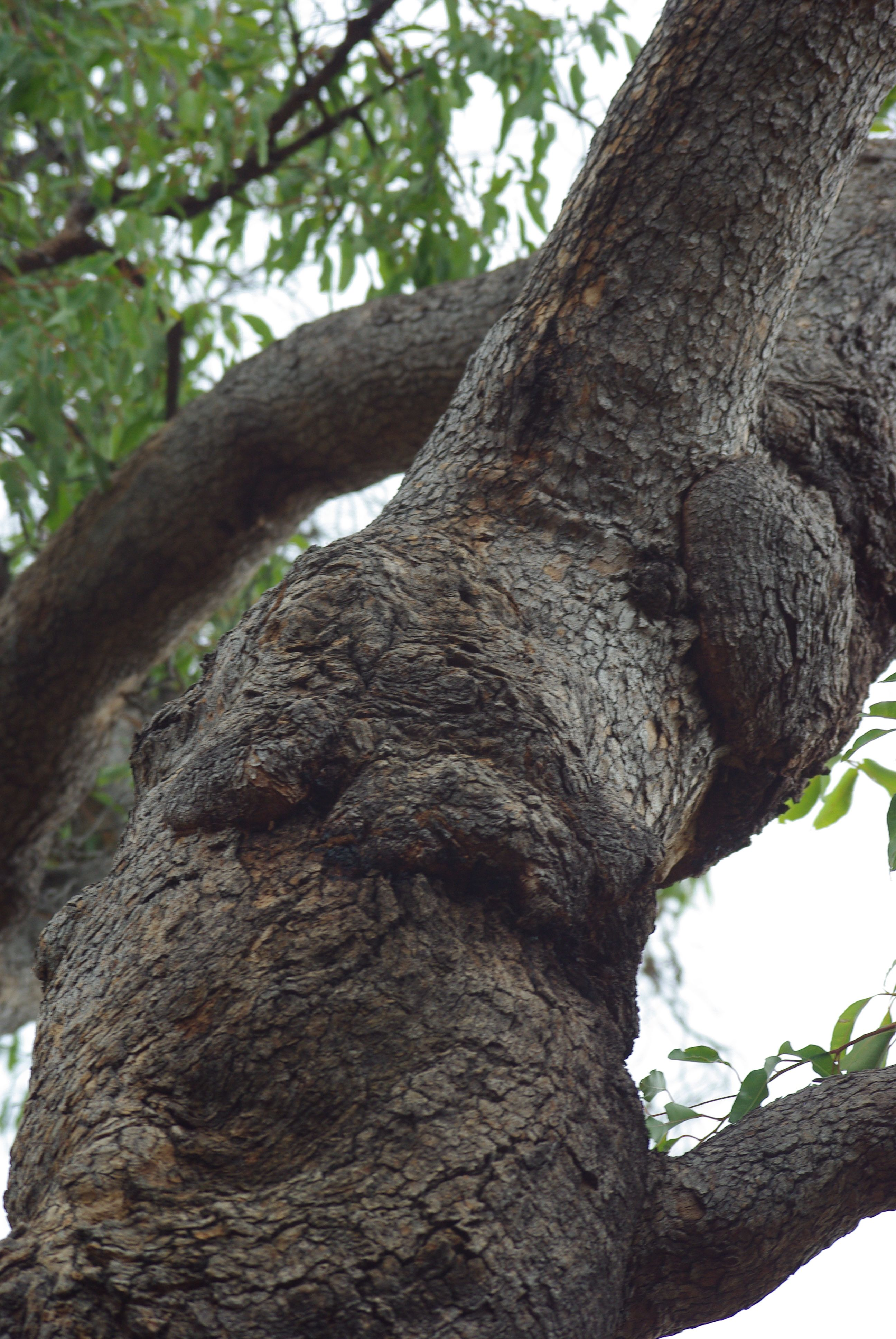 Unusual Eucalypt trunk formation, Greenmount Hill National Park, Western Australia